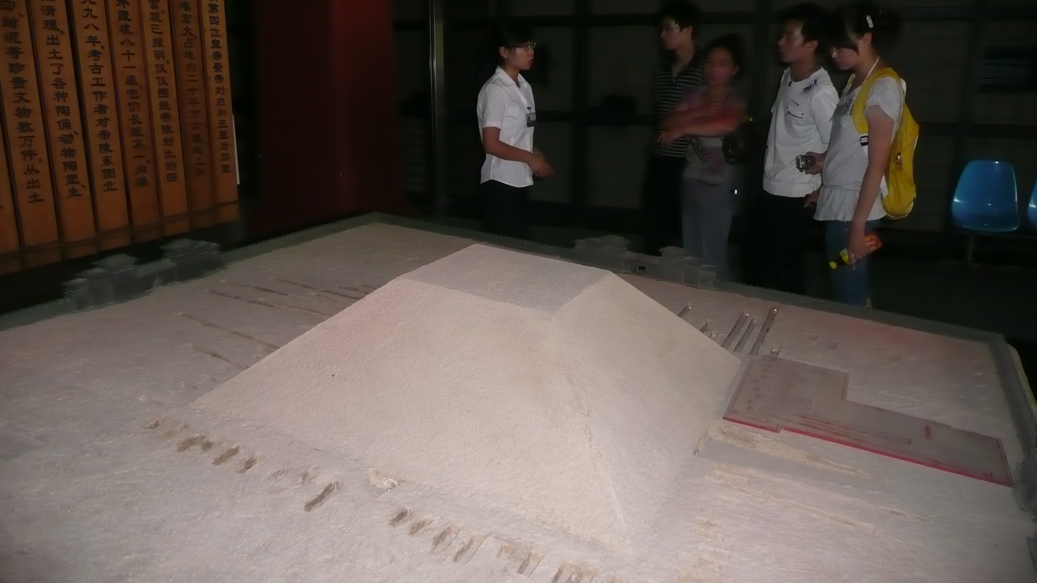 Mausoleum of Han Yang Ling near Xian, model of pyramid in der Han Yang Ling Museum